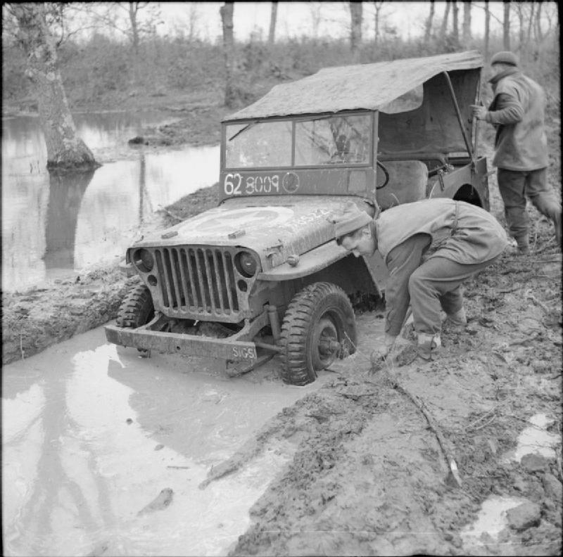 The British Army in Italy 1944 The crew of a jeep attempt to dig out their vehicle, bogged down in muddy conditions near Anzio, 23 January 1944.